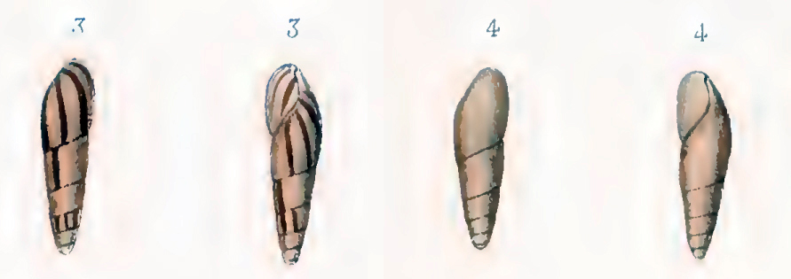 Drawings of Laevaricella guadeloupensis (4: typical form, 3: bêta form) in Mazé (1883).